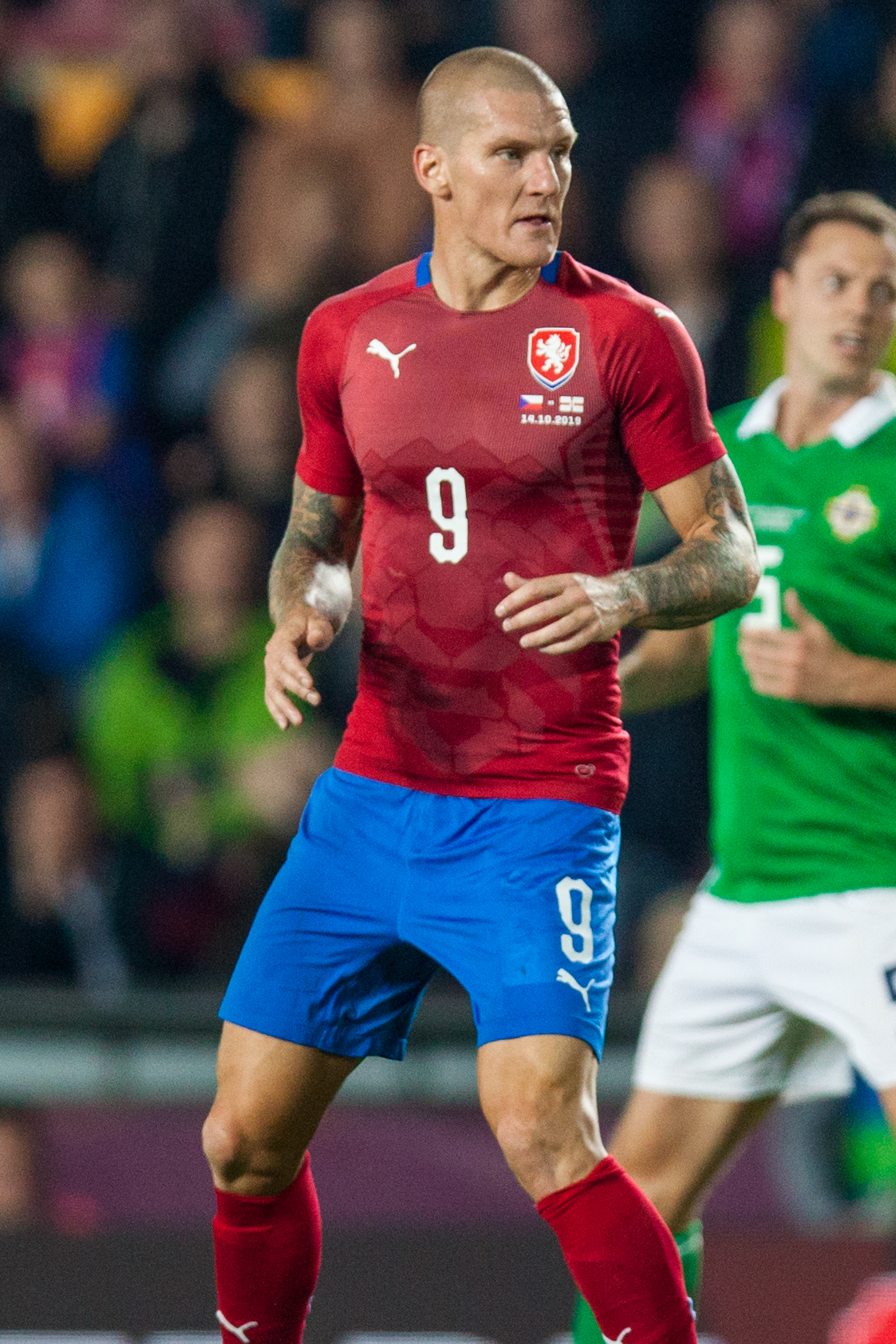 Zdeněk Ondrášek in an international friendly match between Czech Republic and Northern Ireland (2:3), Stadion Letná (Prague) 2019-10-14 The making of this work was supported by Wikimedia Austria. For other files made with the support of Wikimedia Austria, please see the category Supported by Wikimedia Österreich. Personality rights warningAlthough this work is freely licensed or in the public domain, the person(s) shown may have rights that legally restrict certain re-uses unless those depicted consent to such uses. In these cases, a model release or other evidence of consent could protect you from infringement claims.